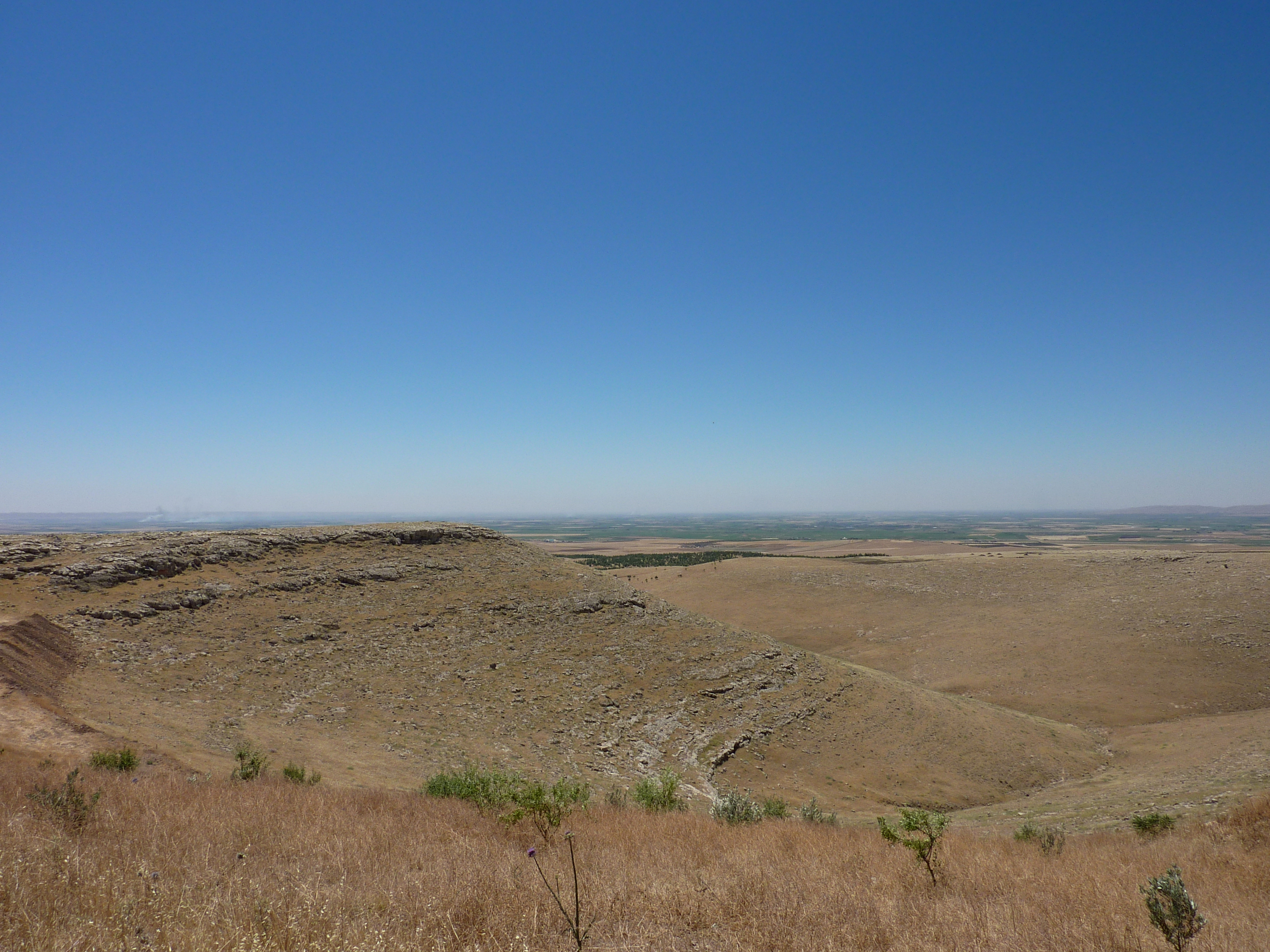 Göbekli Tepe surrounding area